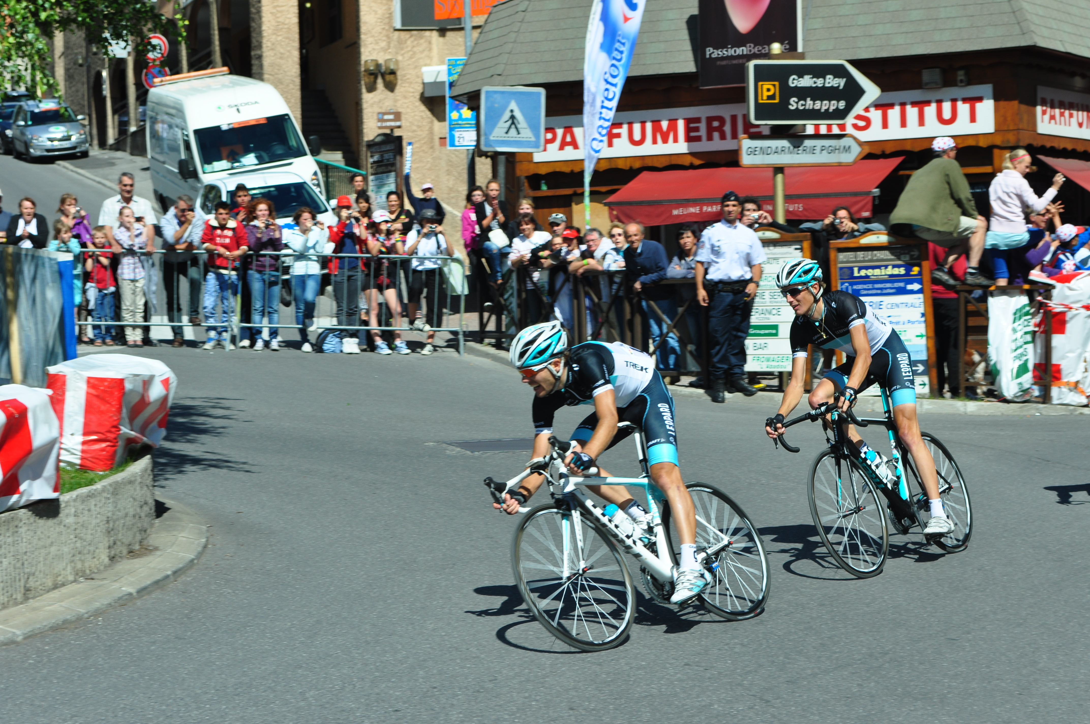 Maxime Monfort leads Andy Schleck up Briancon during stage 18 of the 2011 Tour de France.